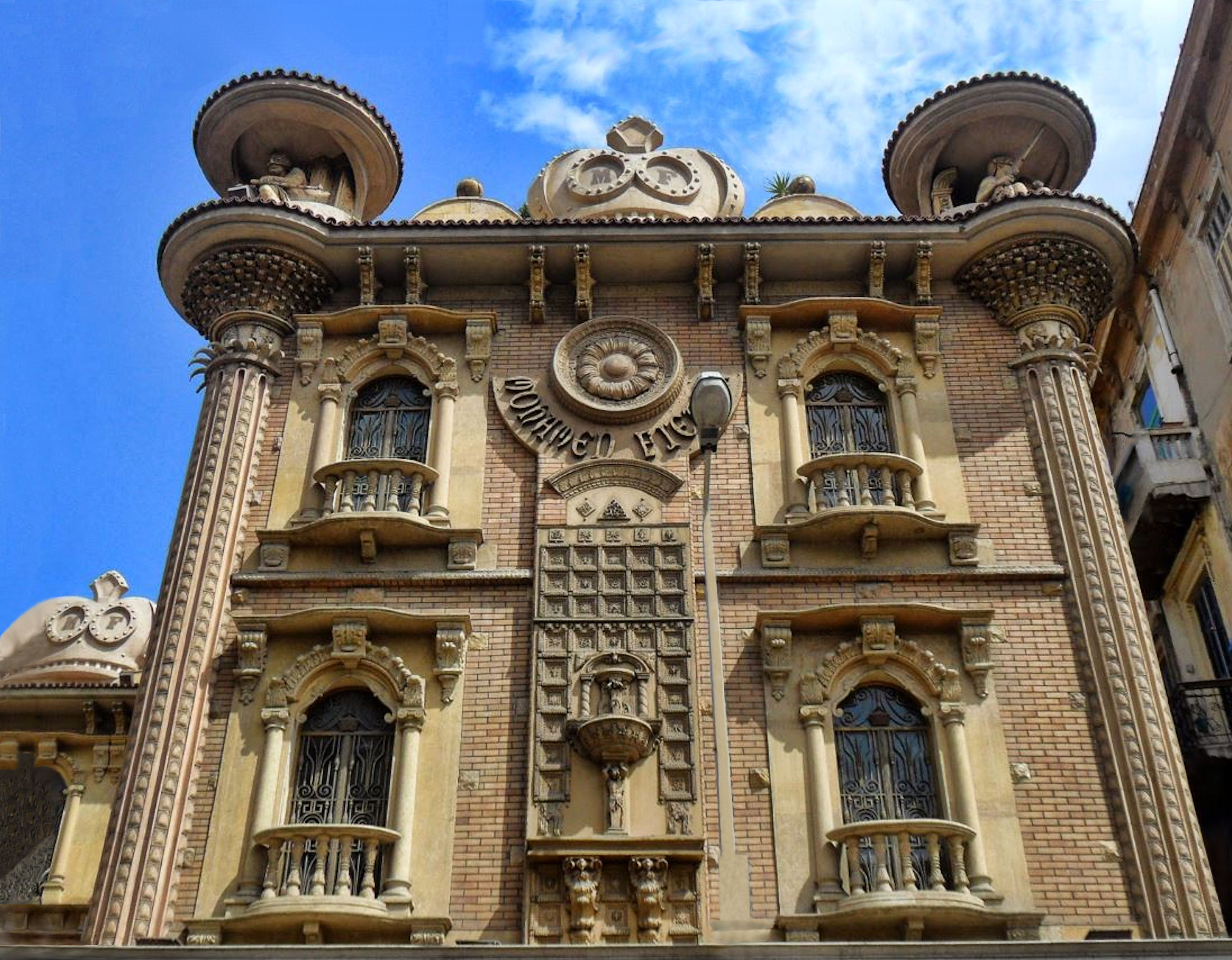 Mohamed Fieter 's Building in Sultan Hassan Street